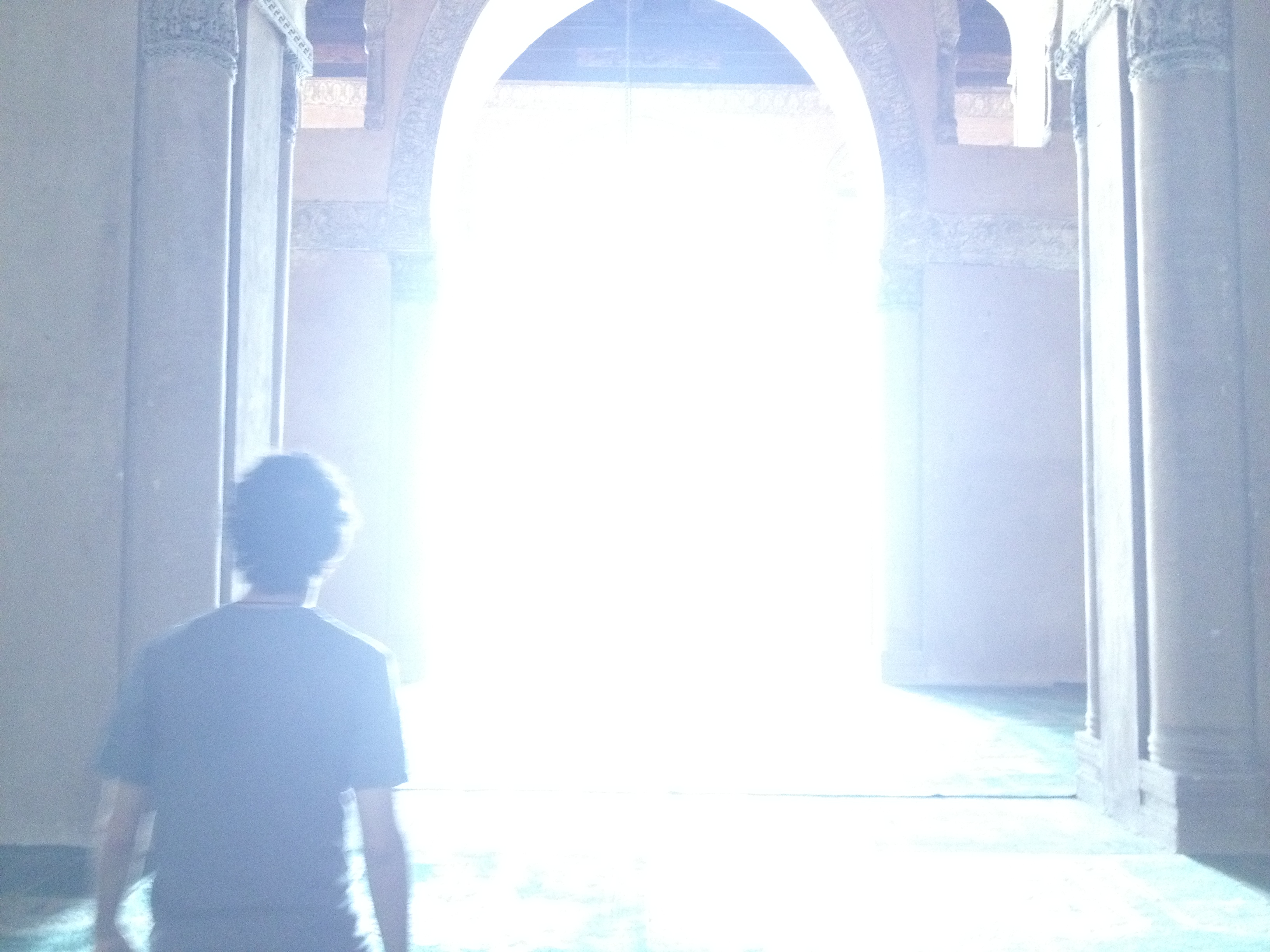 A person walking into the light